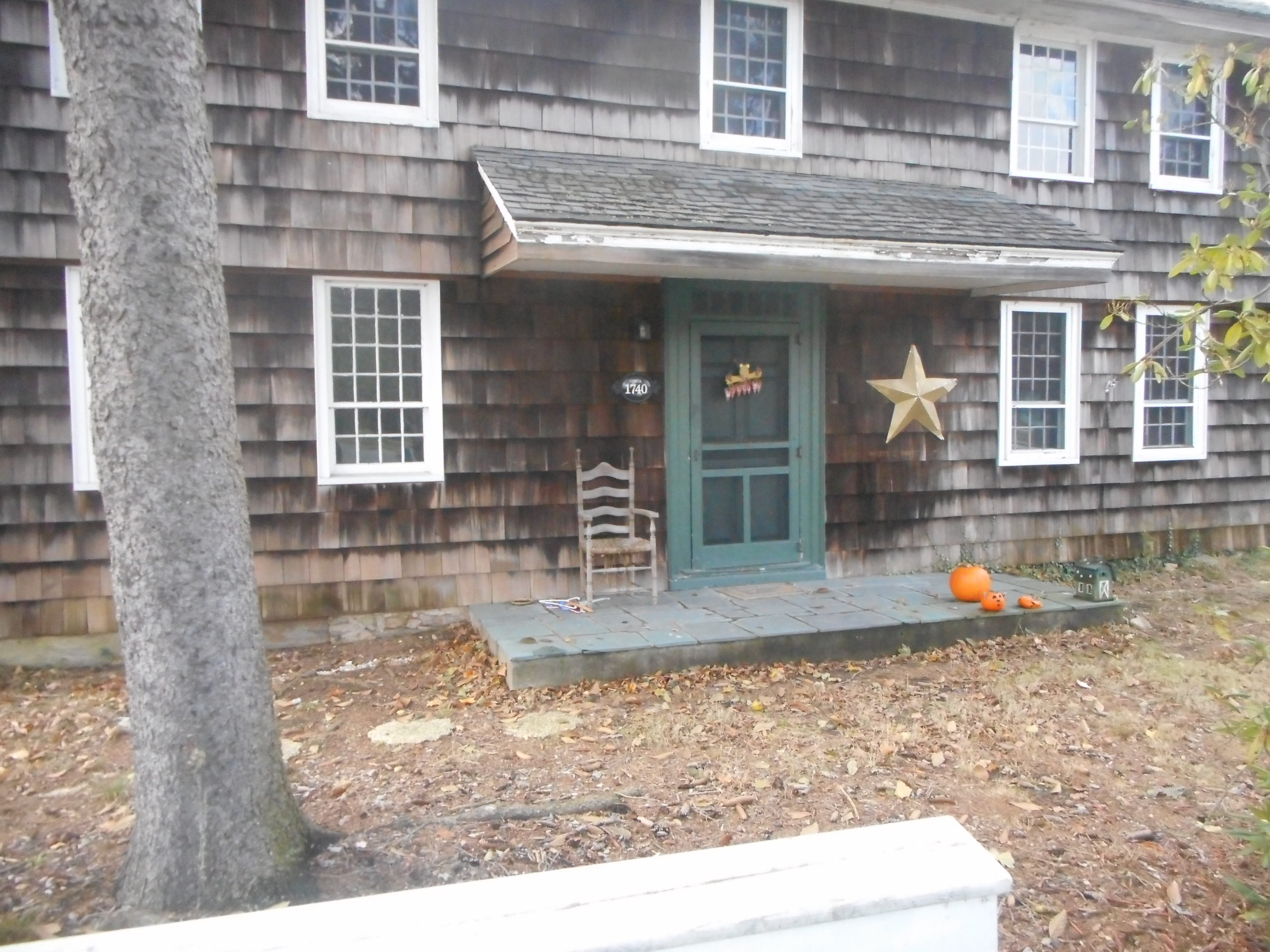 A more contemporary view of the NRHP-listed Ezra Carll Homestead on 49 Melville Road in South Huntington, New York. Further details to come later.